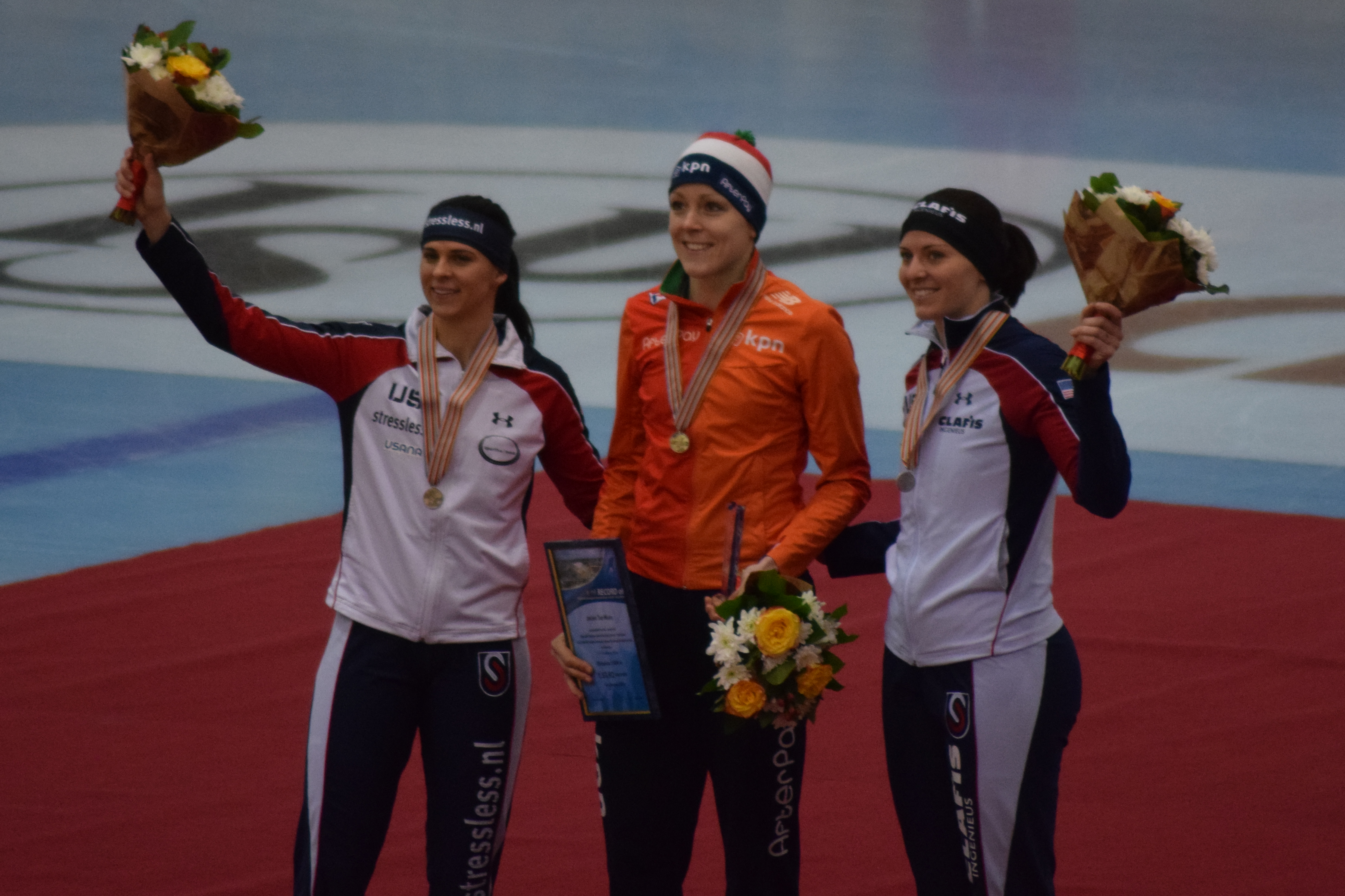 2016 World Single Distance Speed Skating Championships